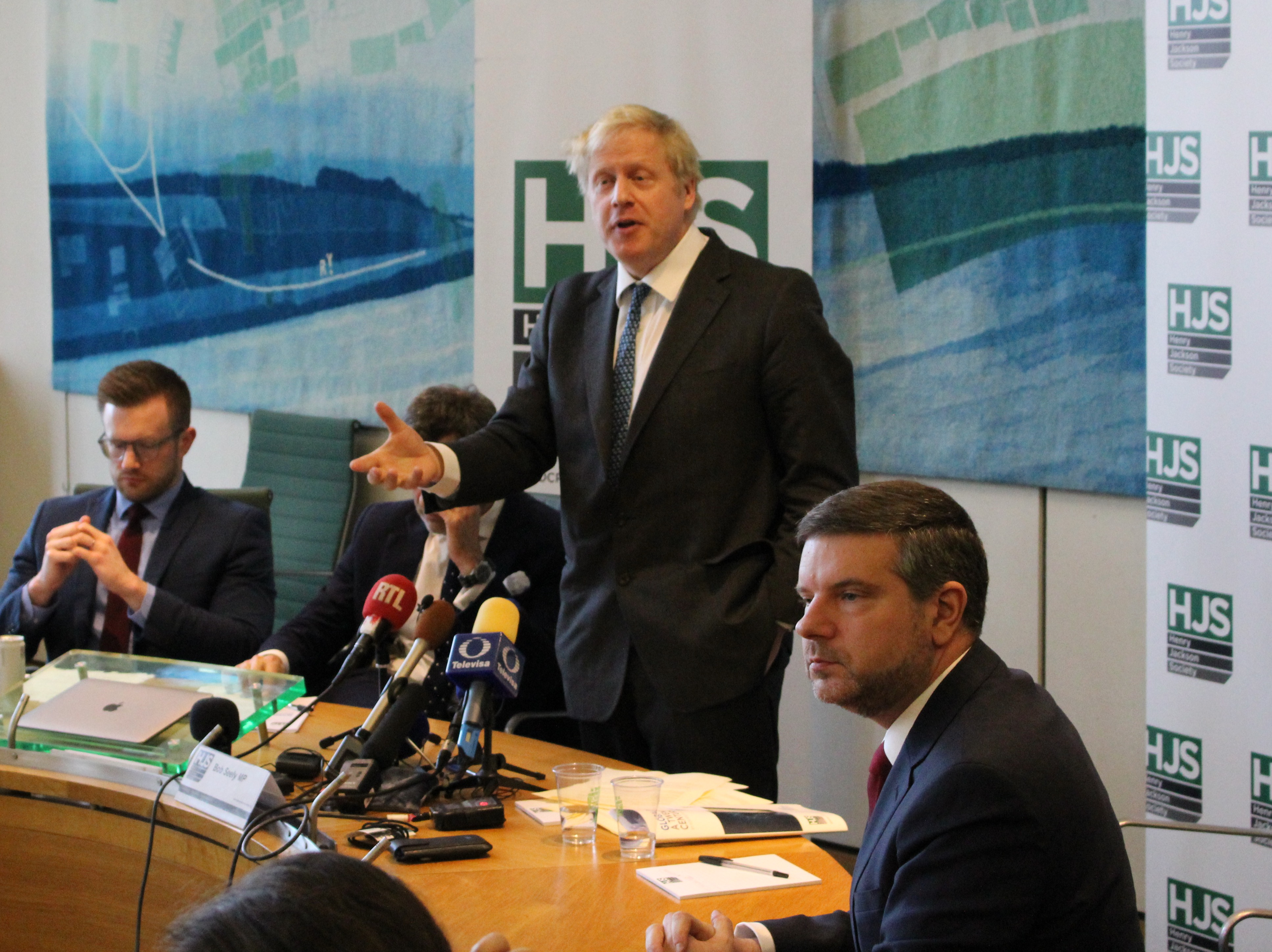 Prime Minister Boris Johnson speaking on Britain and global aid at Henry Jackson Society, a think tank, at the IPU Room at the Palace of Westminster 11 February 2019 - seated behind l-r James Rogers Bob Seely MP and Alan Mendoza